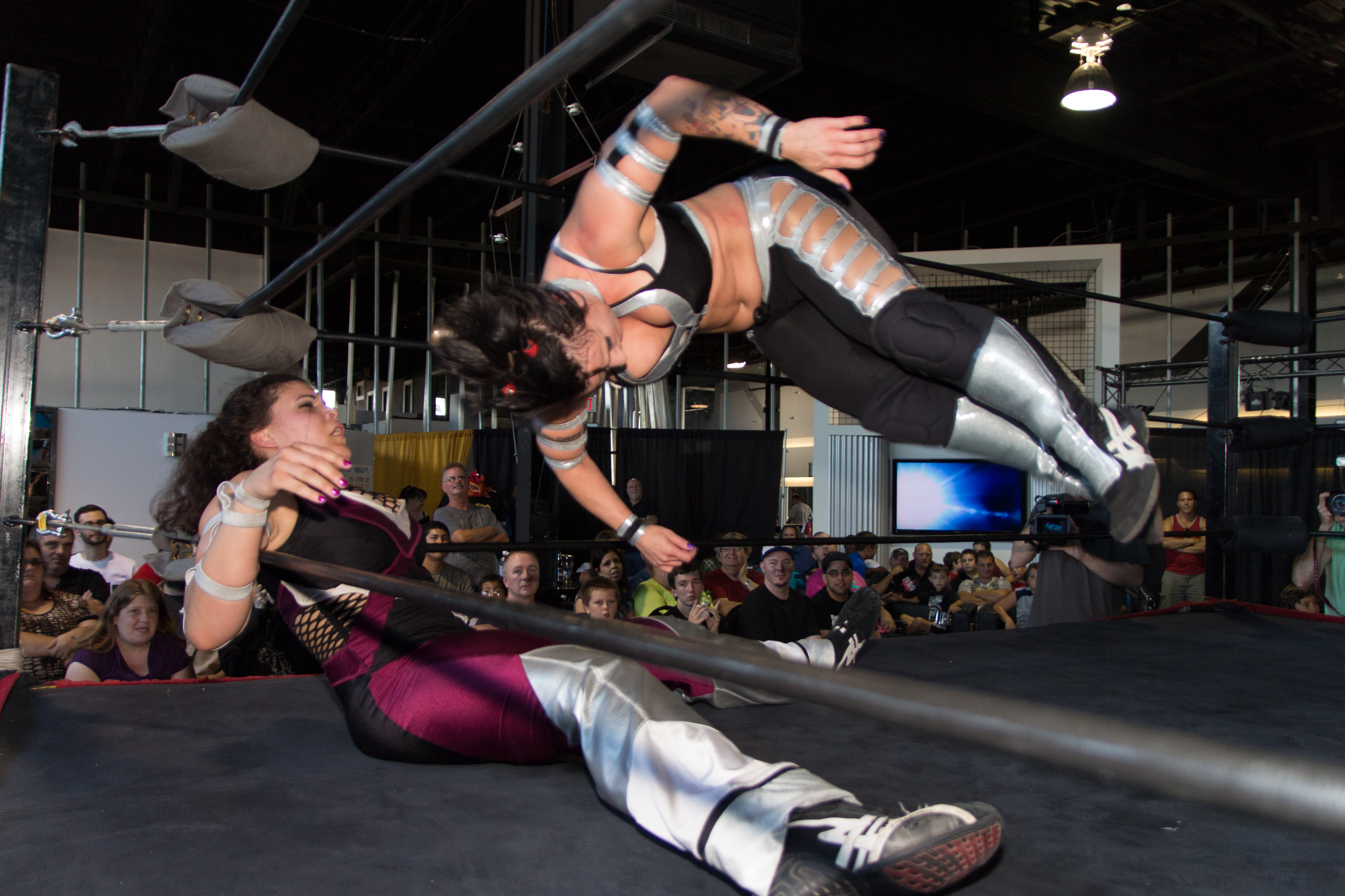 Independent wreslter LuFisto (right) about to execute a cannonball suplex on Vanessa Kraven at a Smash wrestling show in Etobicoke, ON